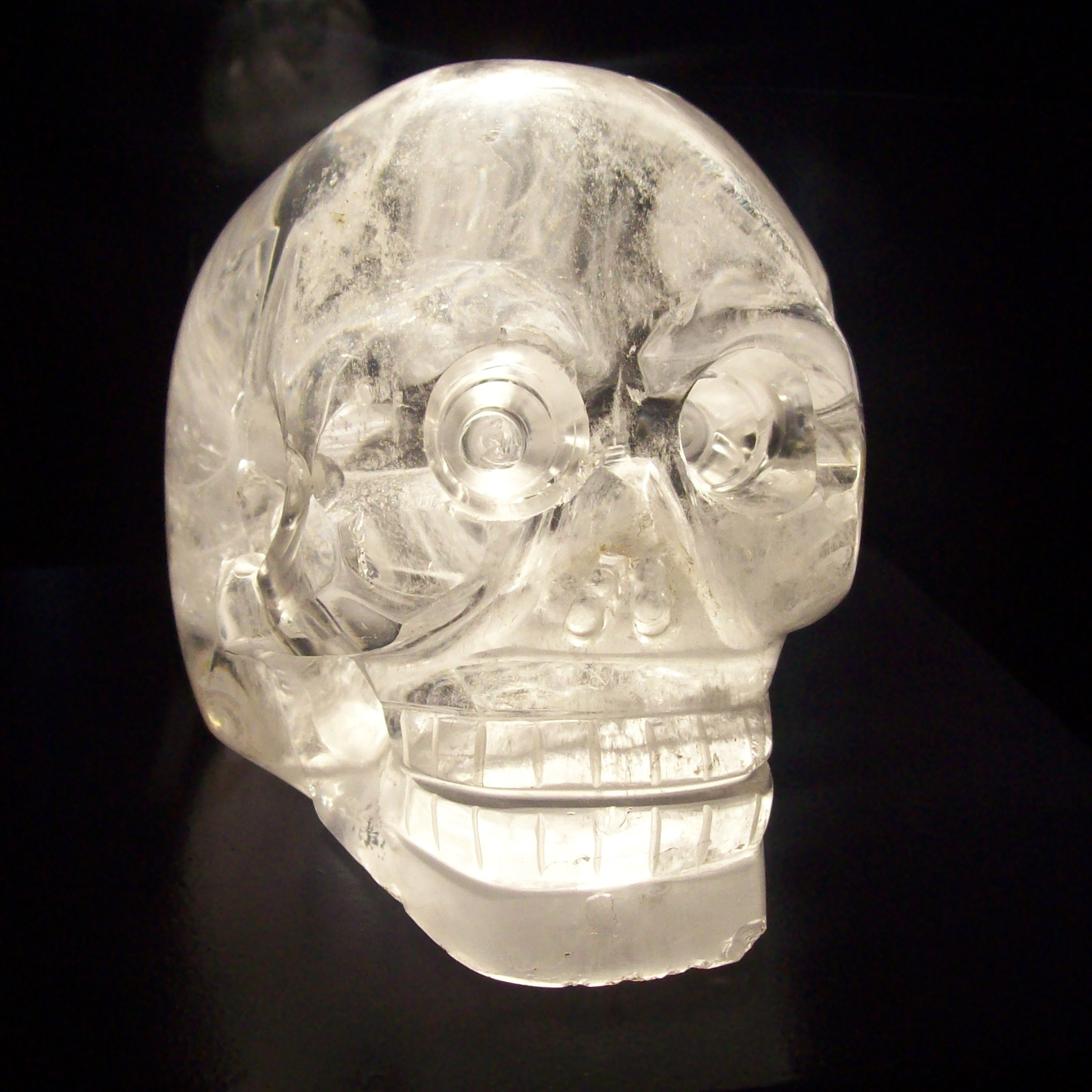 Crystal skull at the Musée du quai Branly, Paris. Eugène Boban, a controversal antique dealer, sold this piece to Alphonse Pinart, a young explorer. Pinart donated it to the Museum of Ethnography at Trocadéro, Paris.